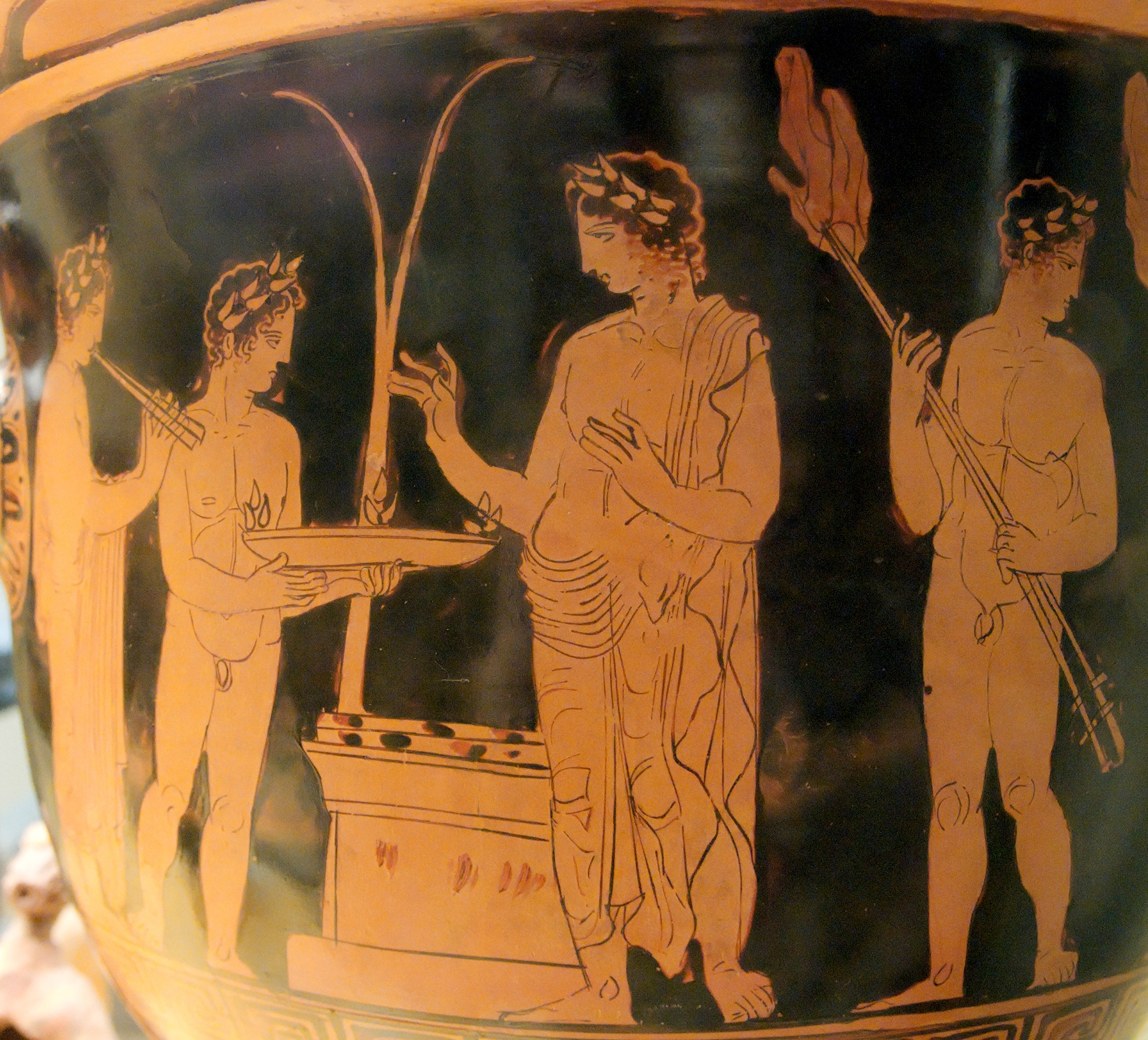 Sacrifice scene. Attic red-figure bell-krater of the late 5th century BC.